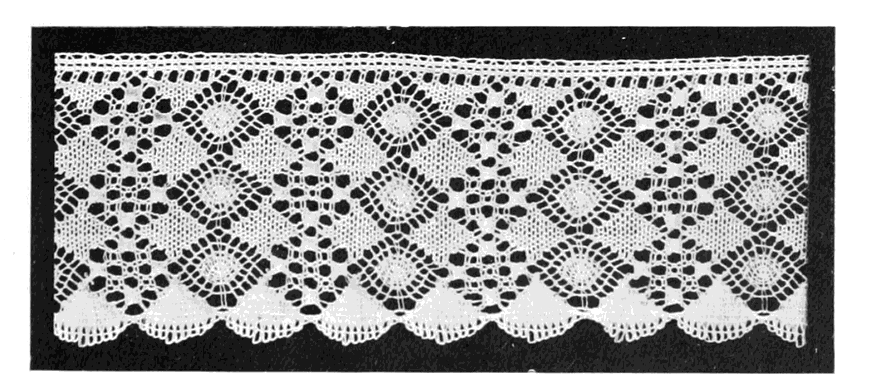 "Imitation Torchon."